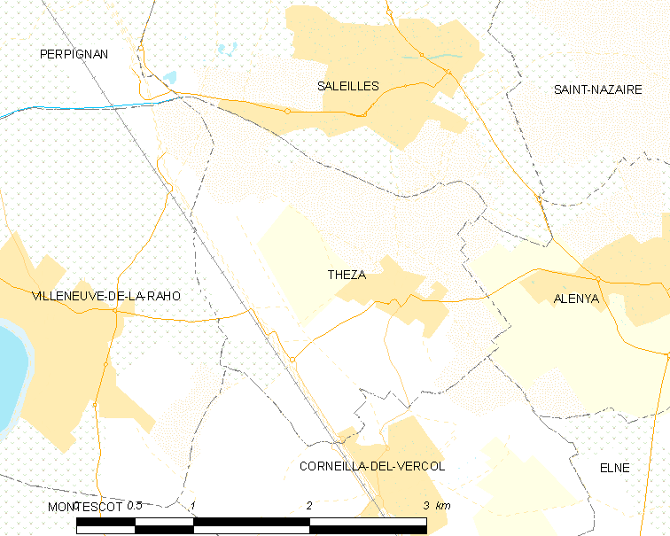 Map of French municipality